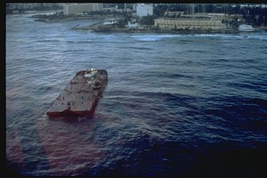 Barge MORRIS J. BERMAN incident, San Juan, Puerto Rico, January 1994. The MORRIS J. BERMAN barge off the coast of San Juan, Puerto Rico.